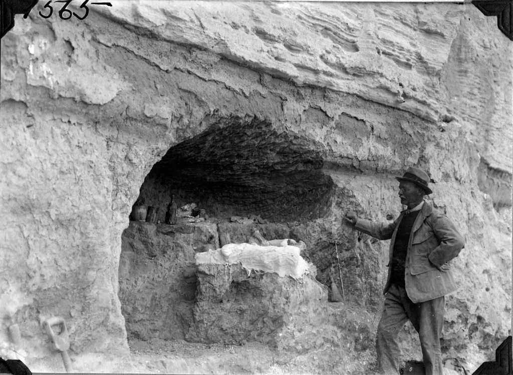 Elmer Riggs standing at the site of the Megatherium in plaster jacket, excavation includes fossils and bottles inside the cave. Bank of Rio Quequeri, Salada. Province of Buenos Aires. 1927? Name of Expedition: 2nd Captain Marshall Field Paleontological Expedition Participants: Elmer S. Riggs (Leader and Photographer),Robert C. Thorne (Collector), Rudolf Stahlecker (Collector), Felipe Mendez Expedition Start Date: April 1926 Expedition End Date: November 1926 Purpose or Aims: Geology Fossil Collecting Location: South America, Argentina, Buenos Aires, Quequen Original material: 5x7 inch glass negative Digital Identifier: CSGEO69565 Learn more about The Field Museum's Library Photo Archives.